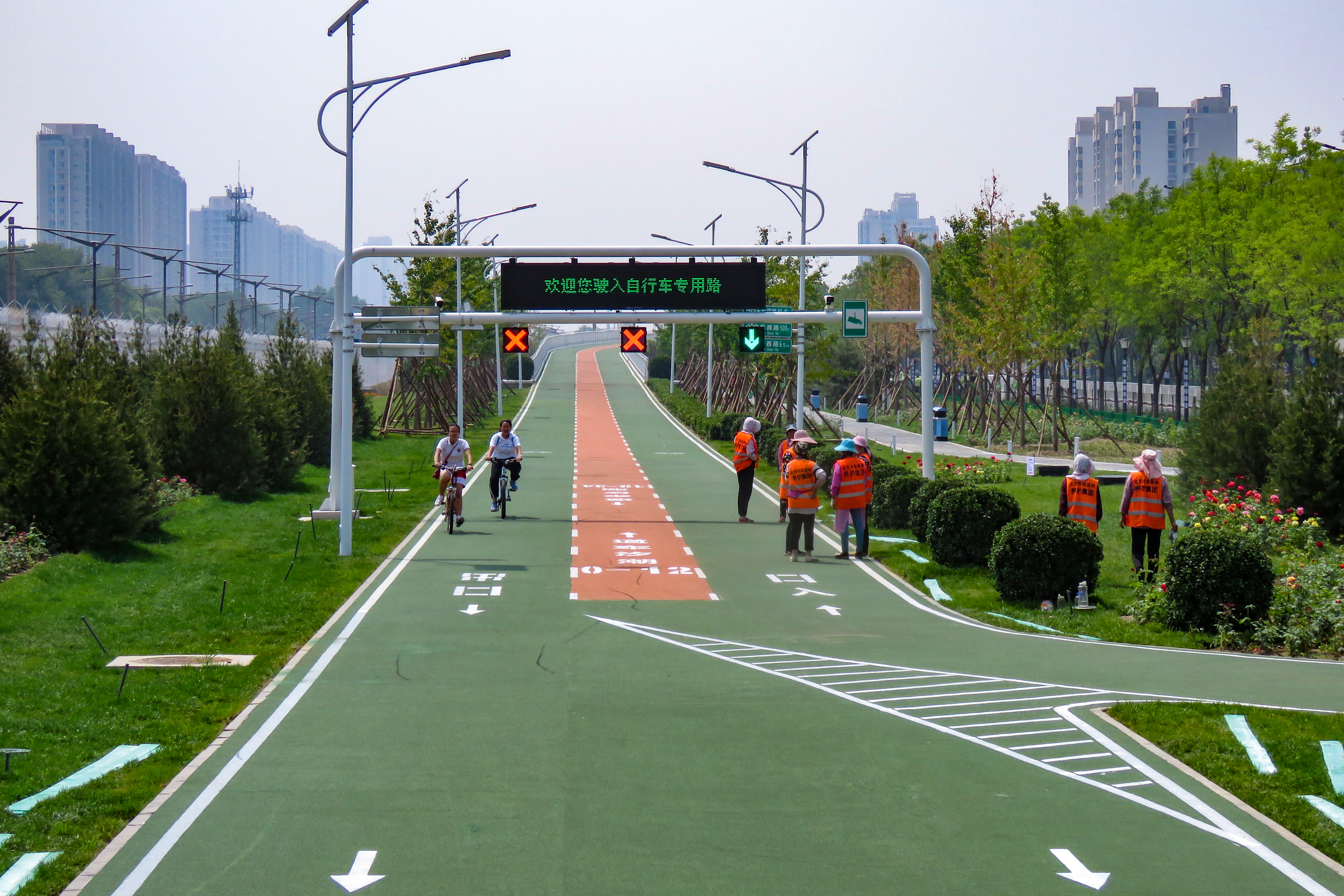 I heard that S5 used 4C+25Z today?